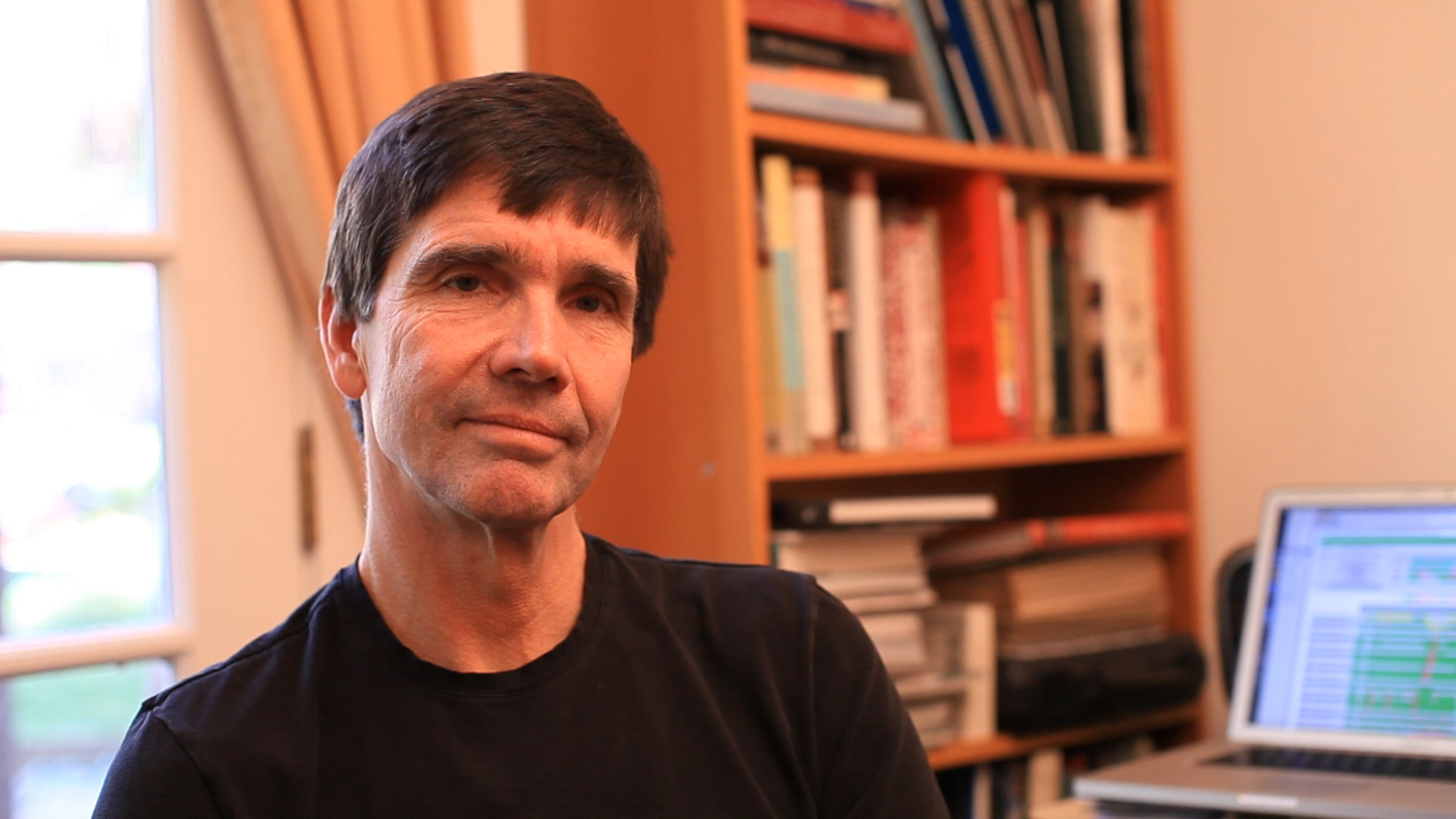 Bill Budge Interview